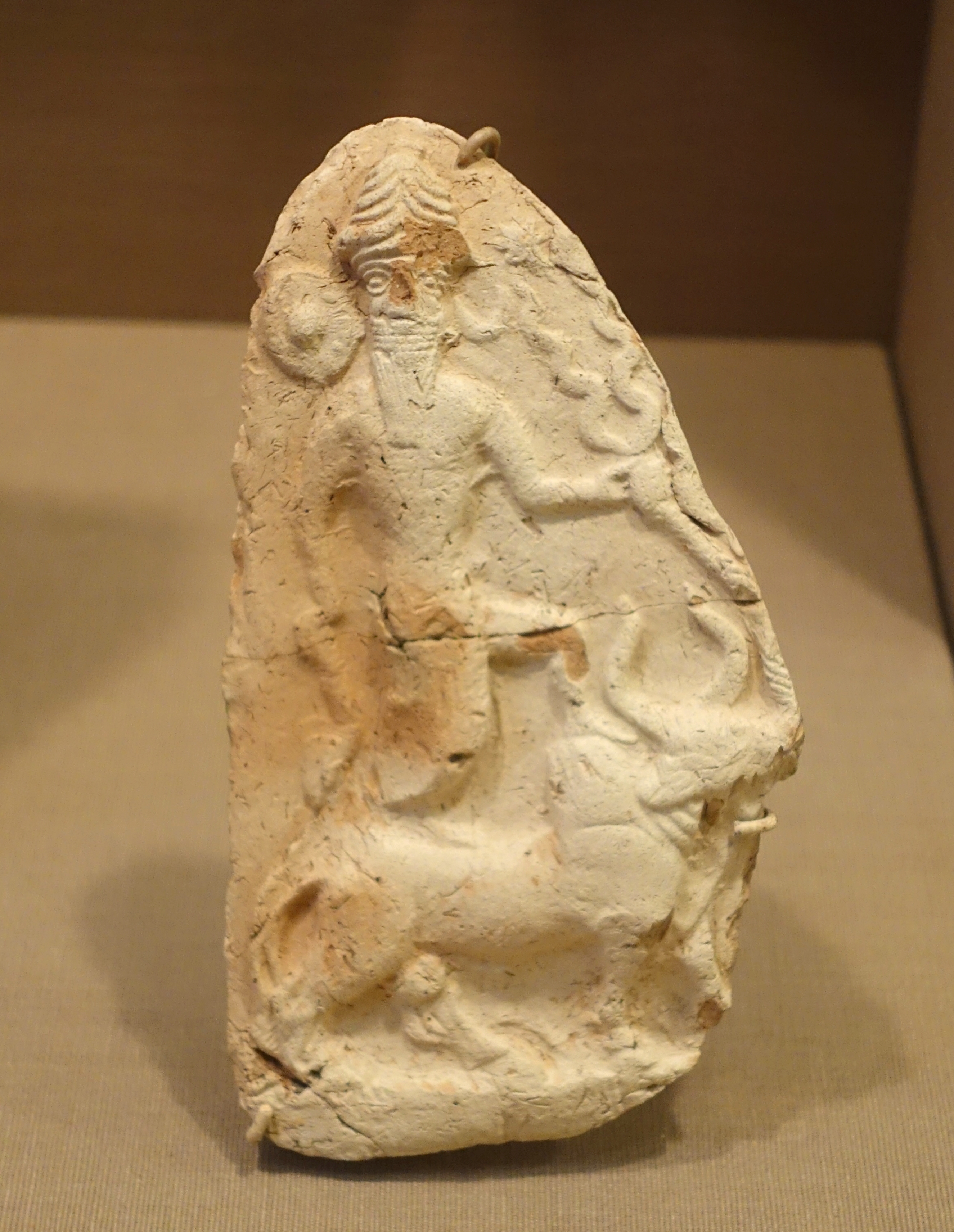 Exhibit in the Oriental Institute Museum, University of Chicago, Chicago, Illinois, USA. This work is old enough so that it is in the public domain.